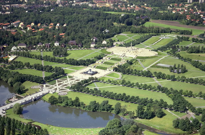 Frogner Park in Oslo with the Vigeland Sculpture Arrangement in the centre.